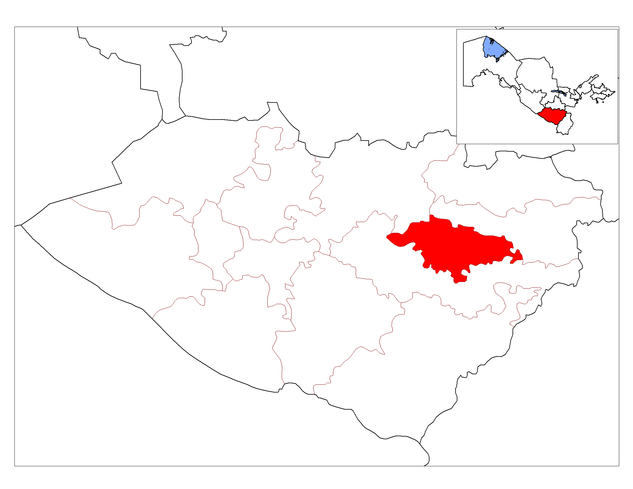 Location map of Yakkabog’ District in Qashqadaryo Province, Uzbekistan